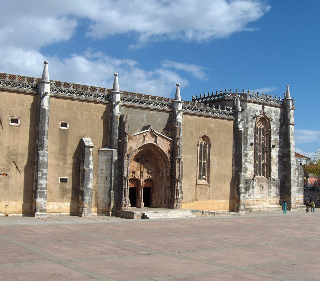 Façade of the Jesus Church ( Igrejia de Jesus) is located in Setúbal, Portugal; next to it is the Gothic convent.